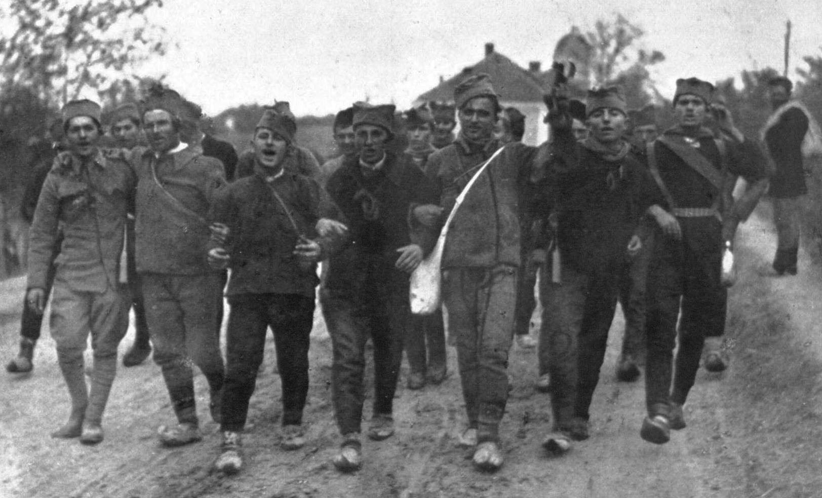 This image file contains a scanned text page with no illustrations.